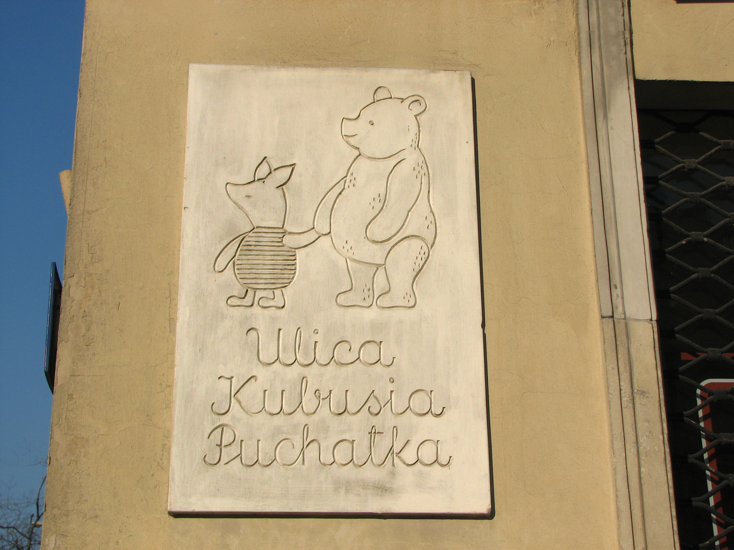 Winnie-the-Pooh Street in Warsaw